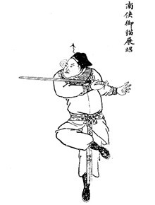 An illustration of Zhan Zhao from a 19th century novel print.